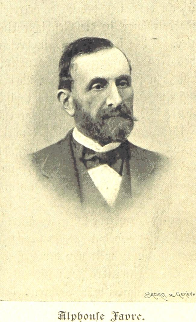 Alphonse Favre Image taken from: Title: "Die Schweiz im neunzehnten Jahrhundert. Herausgegeben von schweizerischen Schriftstellern unter Leitung von P. Seippel" Author: SEIPPEL, Paul. Shelfmark: "British Library HMNTS 9305.h.2." Volume: 02 Page: 258 Place of Publishing: Lausanne Date of Publishing: 1899 Issuance: monographic Identifier: 003330970 Explore: Find this item in the British Library catalogue, 'Explore'. Download the PDF for this book (volume: 02) Image found on book scan 258 (NB not necessarily a page number) Download the OCR-derived text for this volume: (plain text) or (json) Click here to see all the illustrations in this book and click here to browse other illustrations published in books in the same year.